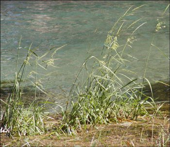 Zizania texana usfws photo